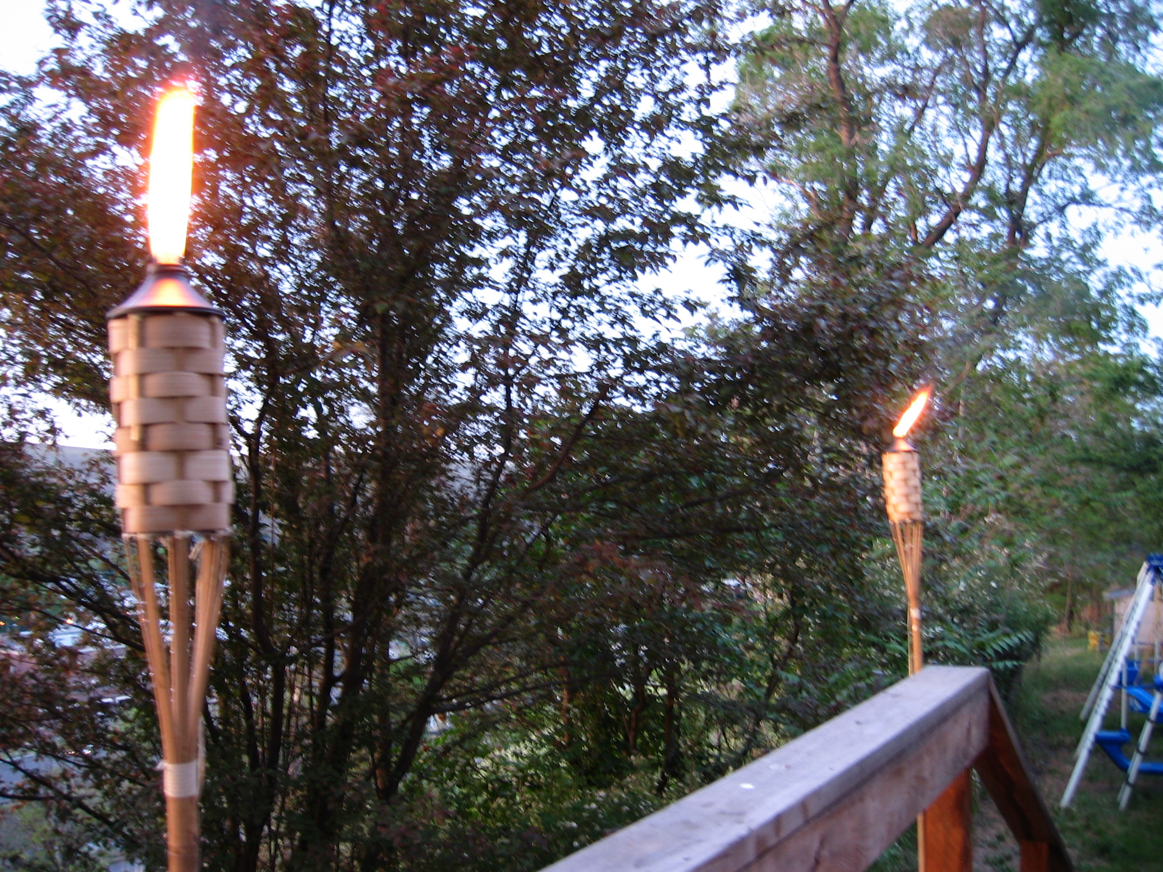 Tiki torches lit at dusk.